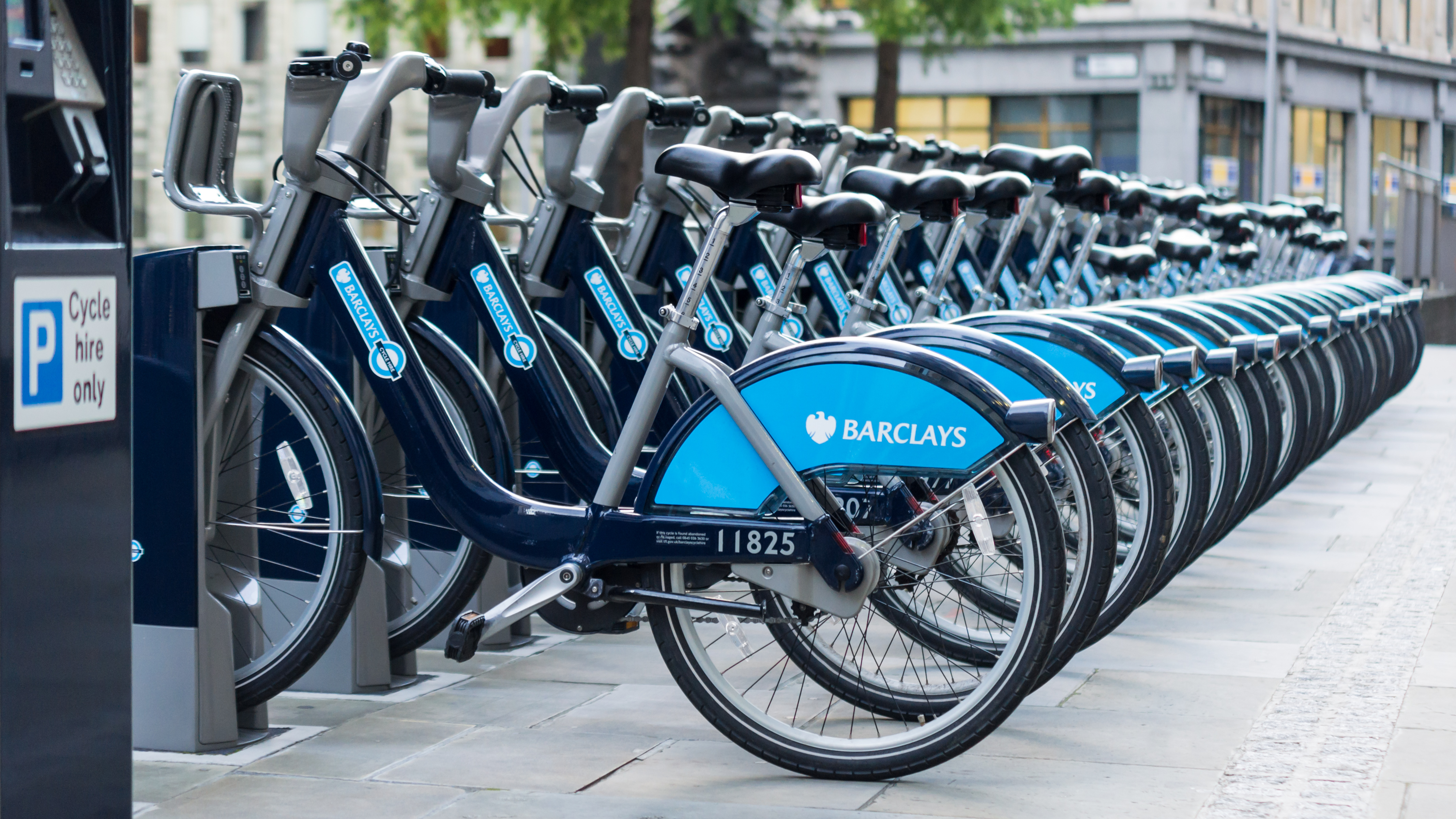 Barclays Cycle Hire docking station with bikes. Next to 30 St Mary Axe aka The Gherkin.